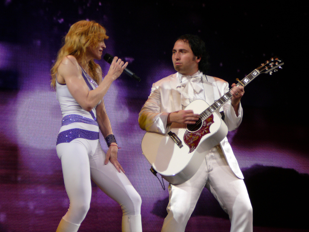 Photo taken at the concert